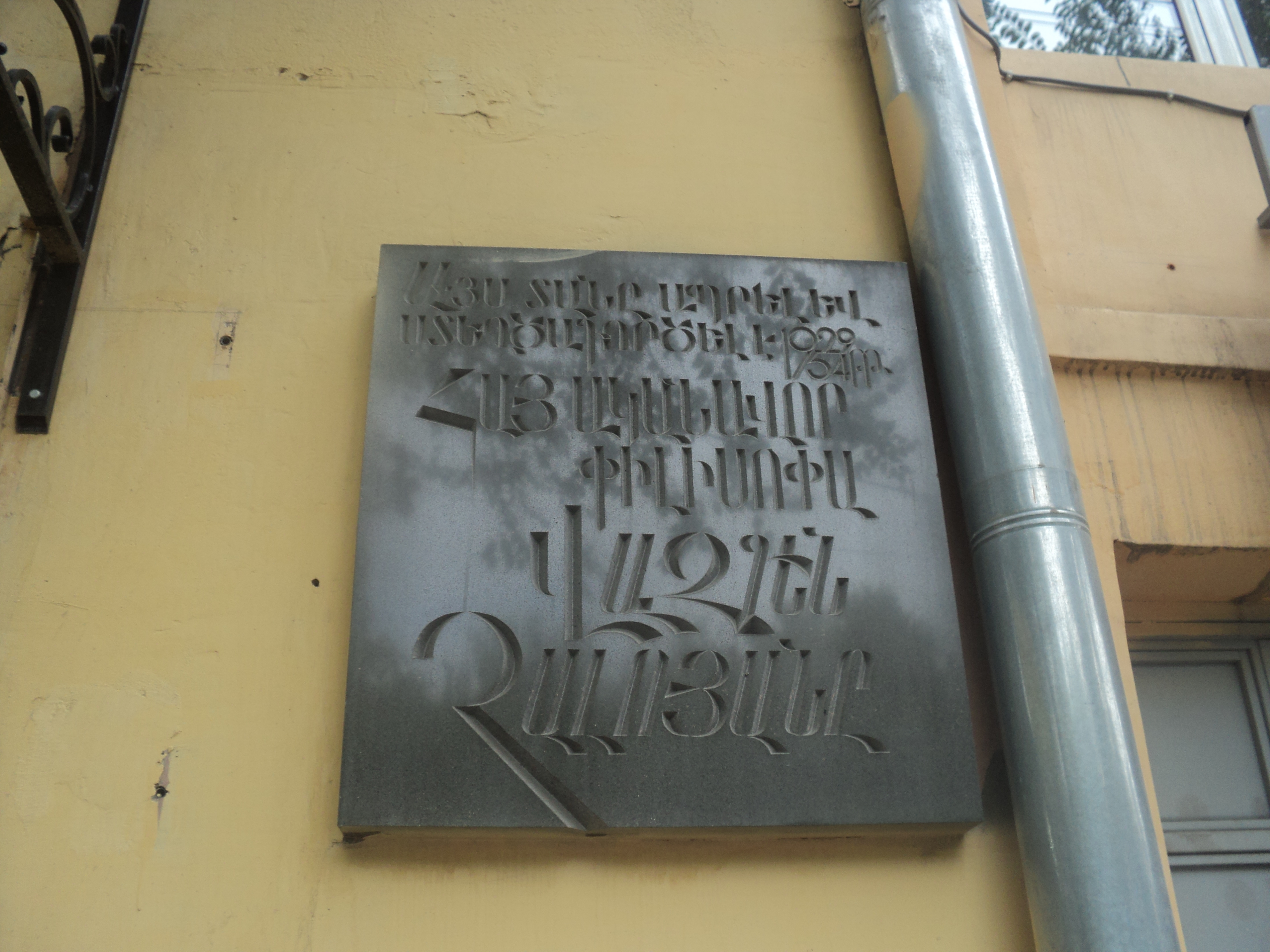 Vazgen Chaloyan's plaque